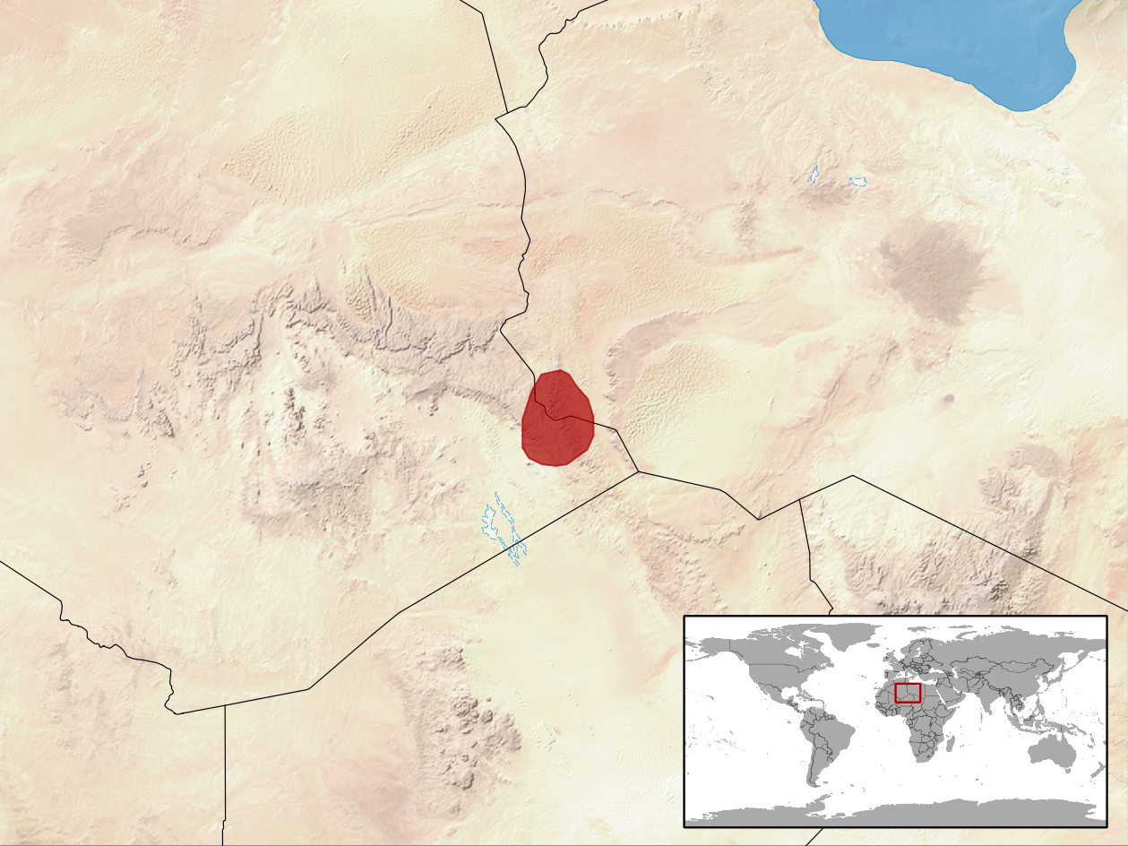 geographic distribution of Uromastyx alfredschmidti (Native: Algeria; Libya)